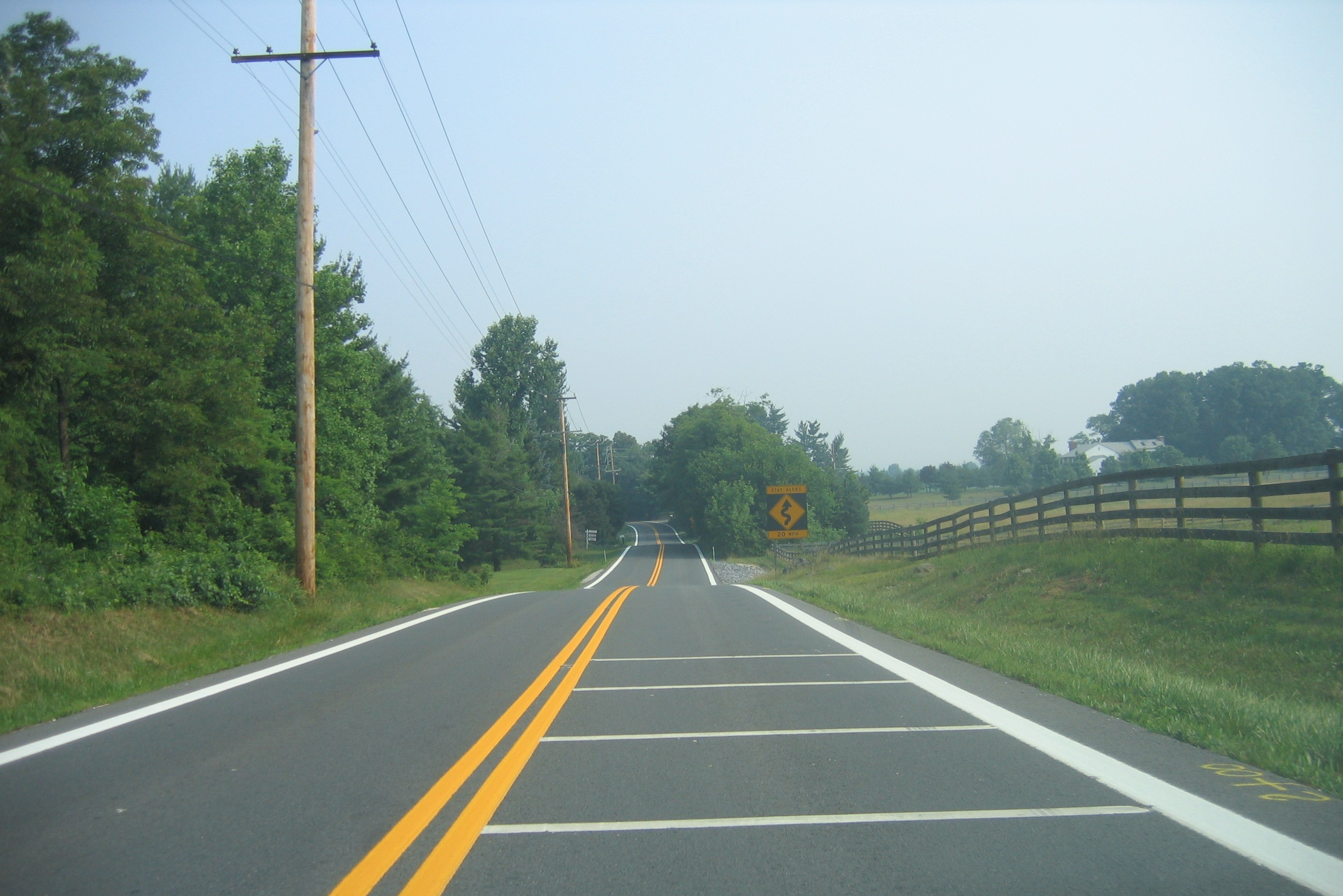 Northbound MD 97 approaching the Howard-Caroll County Line, Maryland